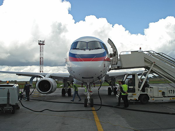 Sukhoi SuperJet 100 (SSJ-100) board #004 in Tolmachevo (Novosibirsk) airport